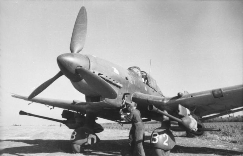 Junkers Ju 87 "Stuka" dive bomber with 3.7 cm anti-tank guns under the wings. The aircraft, Hans-Ulrich Rudel's, is being started with a hand crank